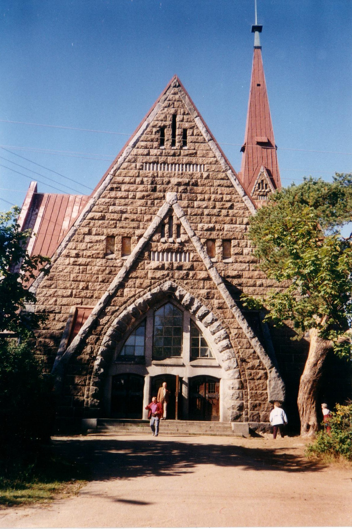 Koivisto (lutherian) church in the Finnish Karelia ceded to the Soviet Union in 1944. Built 1902-1904. Photo taken by Kyzyl summer 2000.)